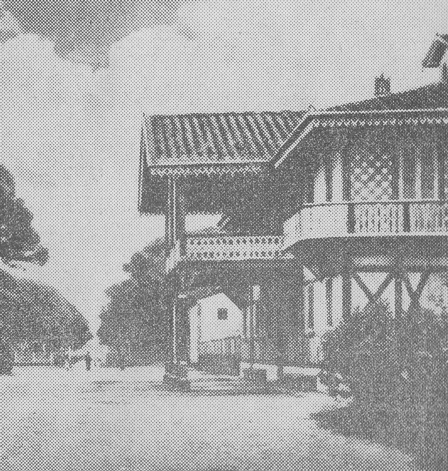 Old Gombo's royal chalet in San Rossore, near Pisa.